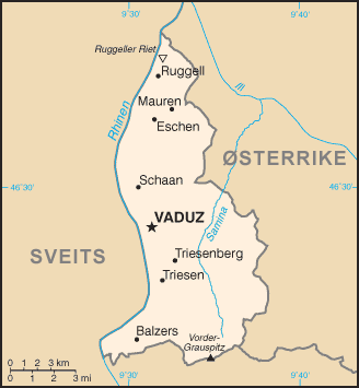 CIA map from the World Factbook of Liechtenstein with Norwegian textNorsk bokmål: CIA-kart fra The World Factbook over Liechtenstein med norsk tekst